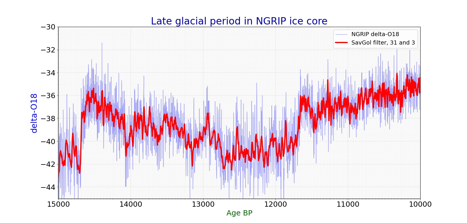 Younger Dryas cold event seen in NGRIP curve, time goes from right to left. Numbers are thousand of years ago in NGRIP time scale. Down is colder, up is warmer.